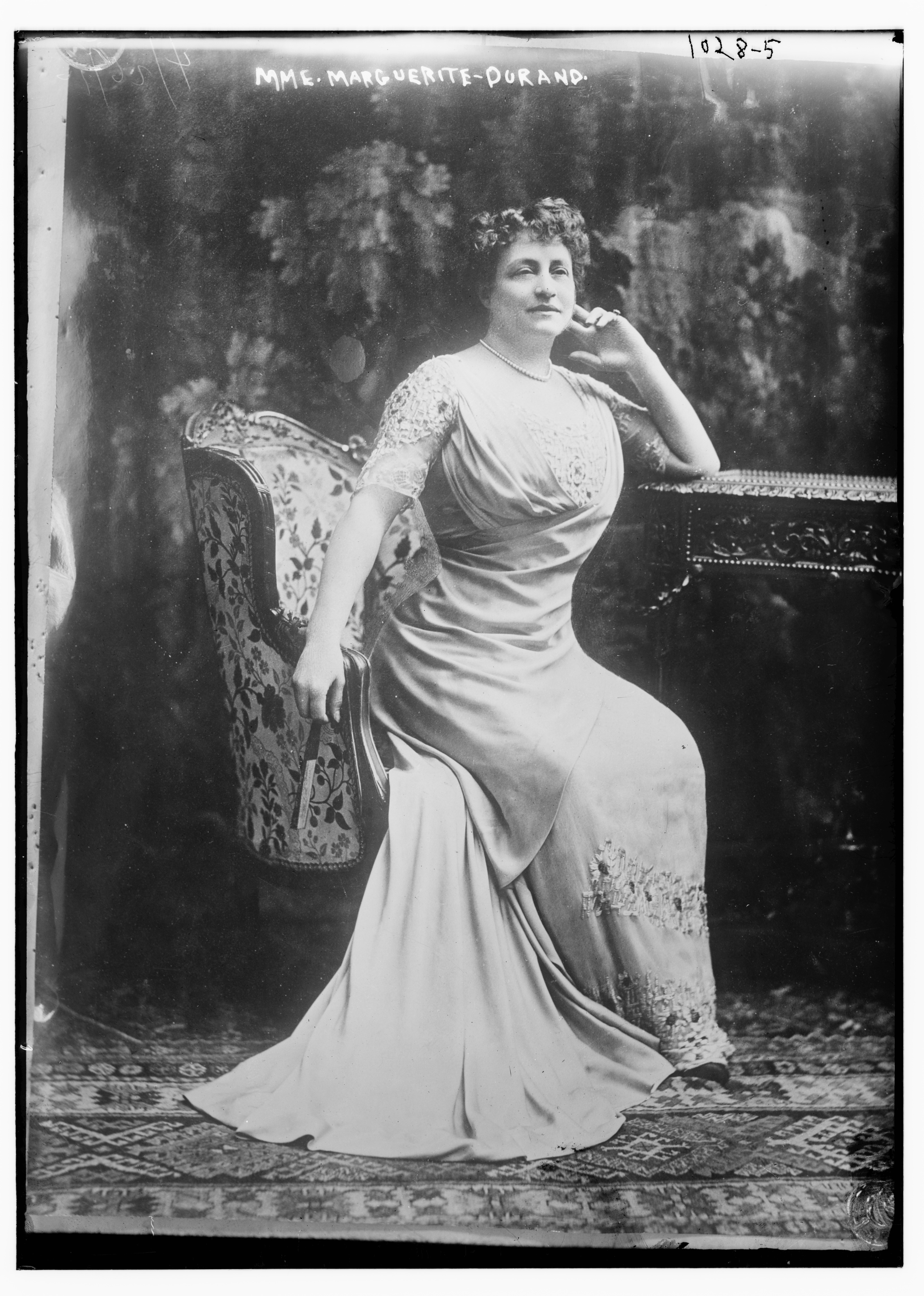 Marguerite Durand (1864 – 1936), French stage actress, journalist, and a leading suffragette